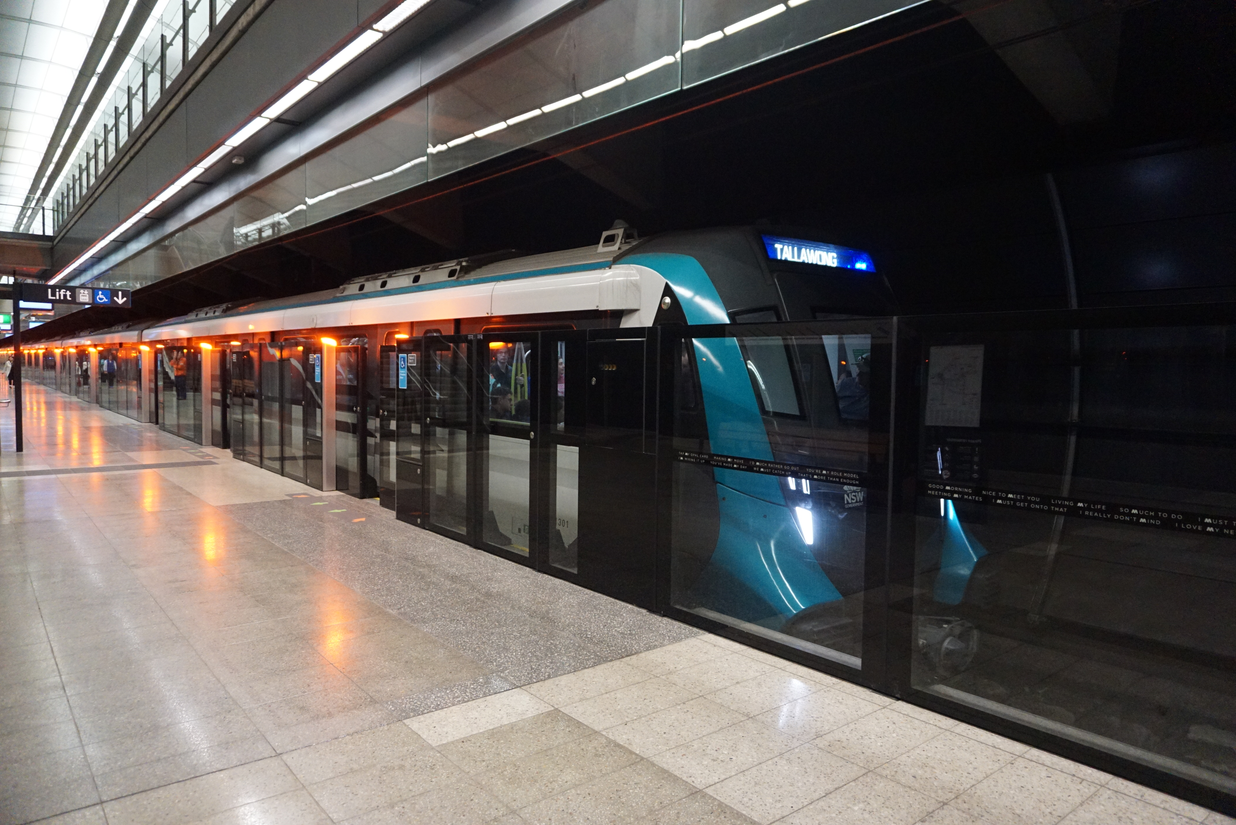 Sydney Metro Alstom Metropolis Driverless Train